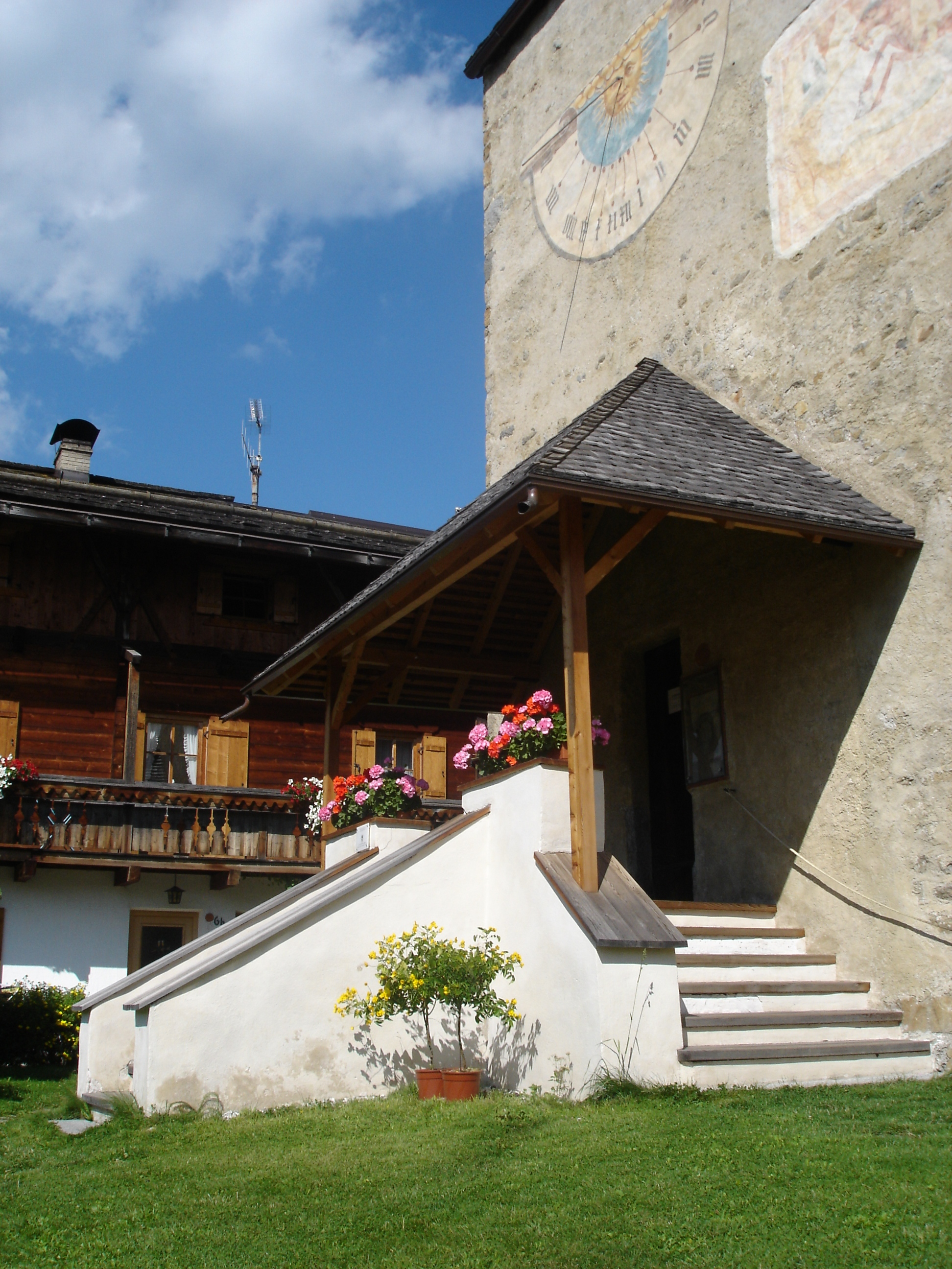 San Giorgio Church in Tesido, Italy